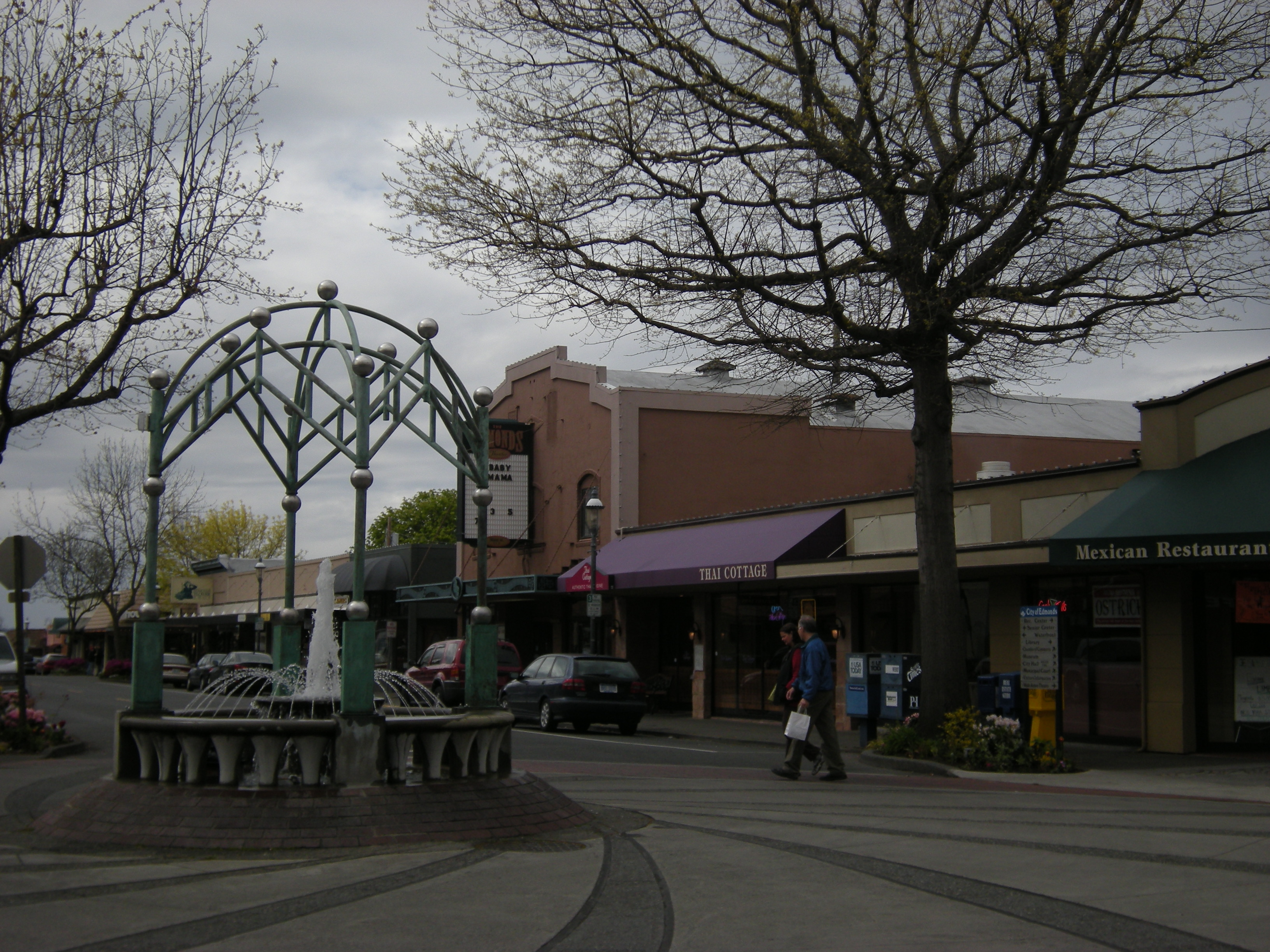 Al Kincaid Memorial Roundabout/Fountain, 5th & Main, Edmonds, Washington.